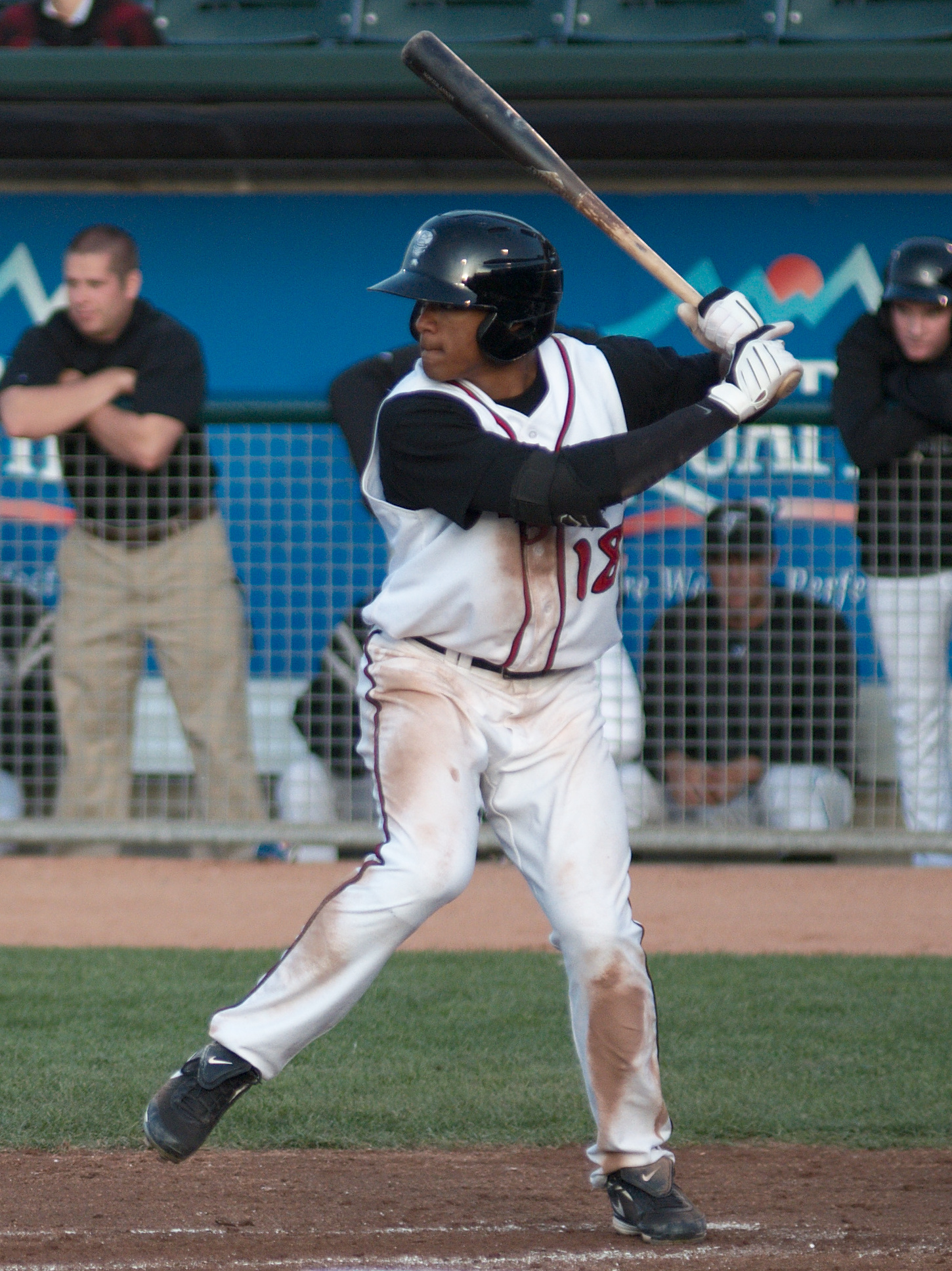 Kenny Wilson bats for the Lansing Lugnuts during a 2010 game at Cooley Law School Stadium in Lansing, Michigan.